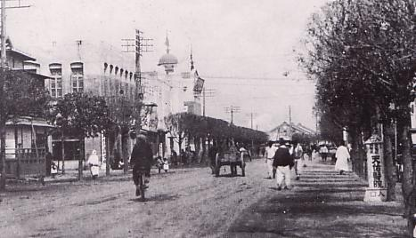 Zeikan-Dori in Shingishu(Sinuiju)